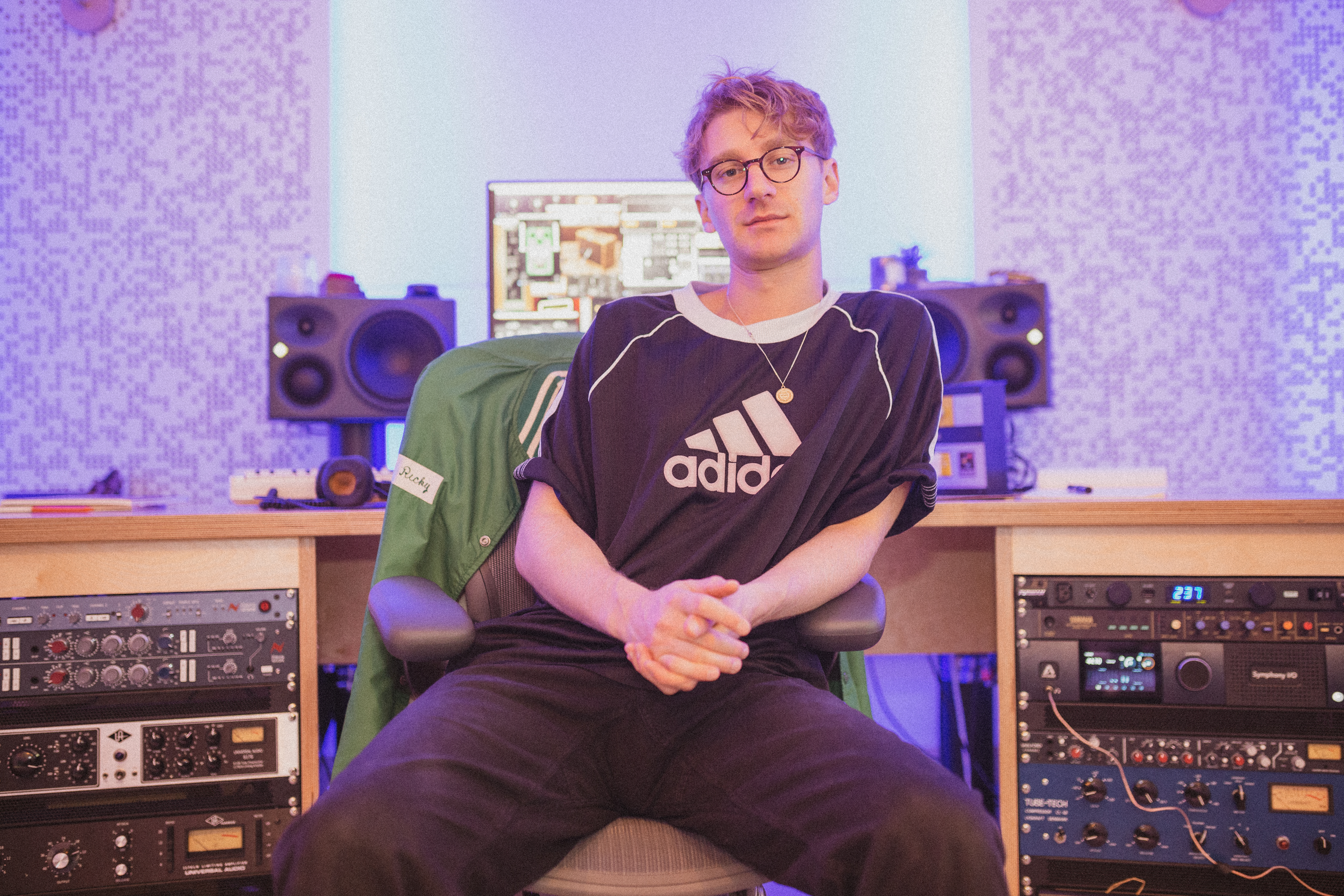 Dave Bayley in the studio November 2018.